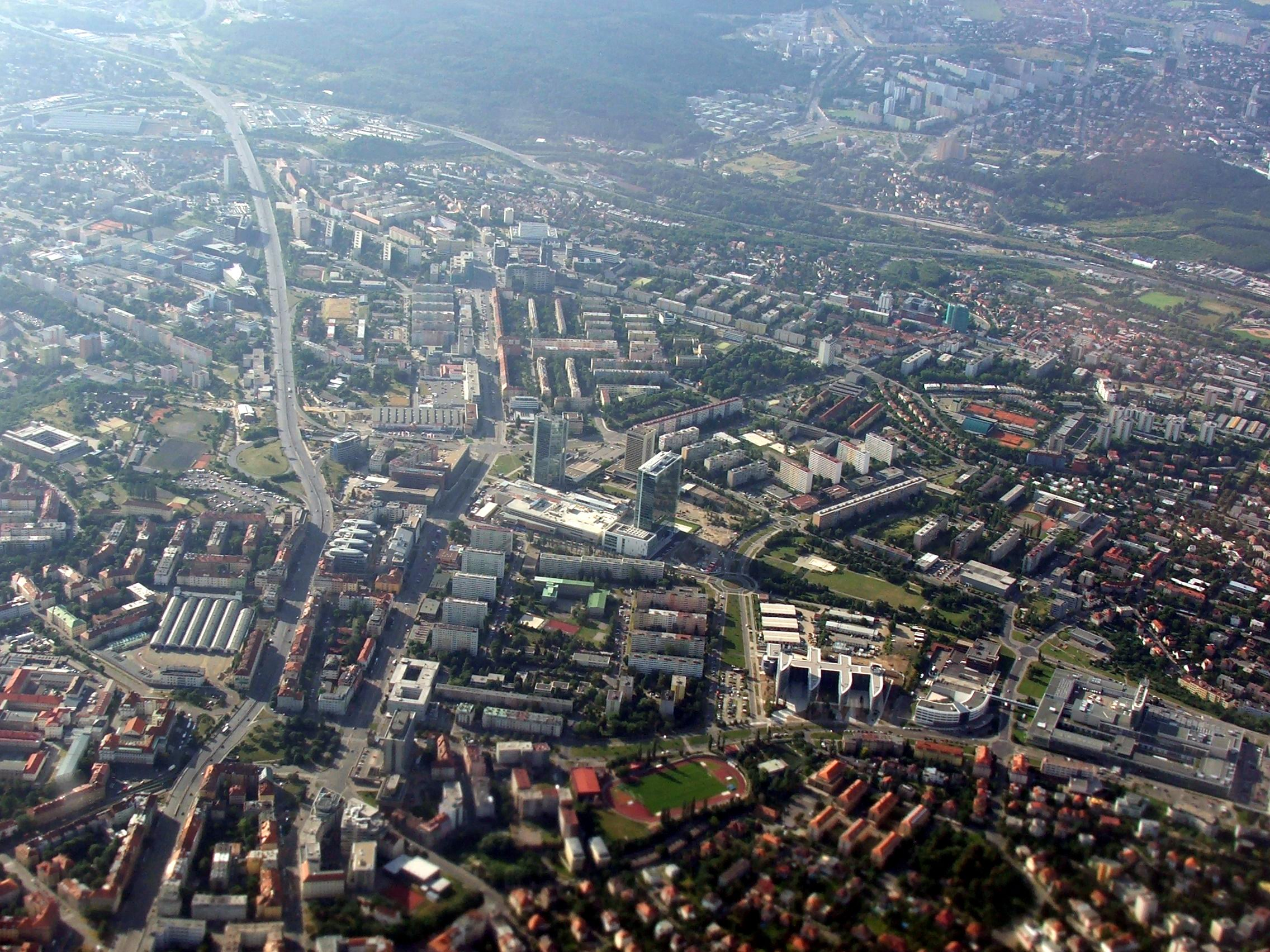 Aerial view of southern suburbs of Prague (Pankrác and Krč).